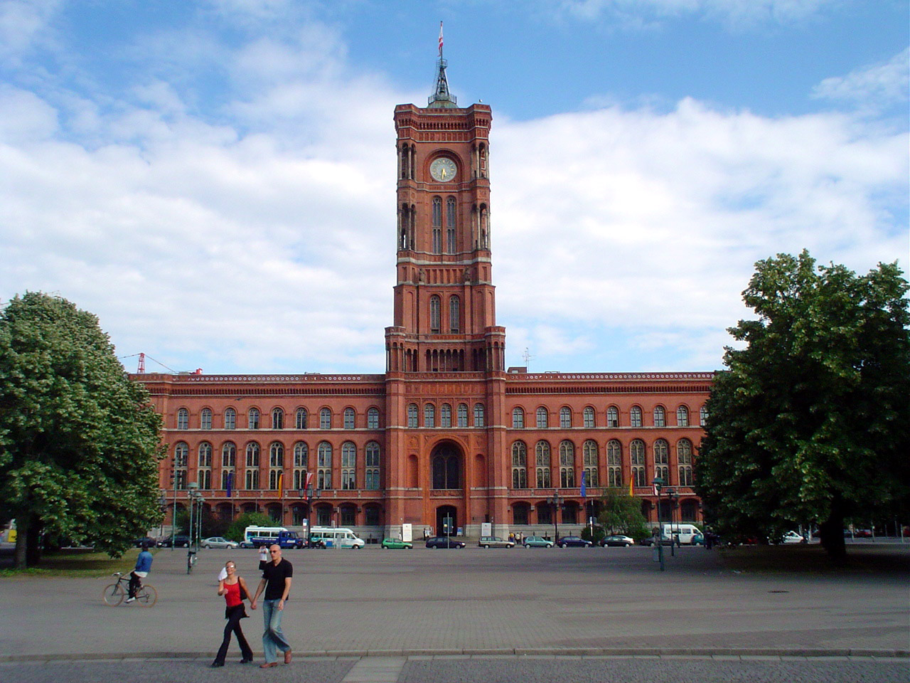 Rotes Rathaus in Berlin in the summer of 2003.